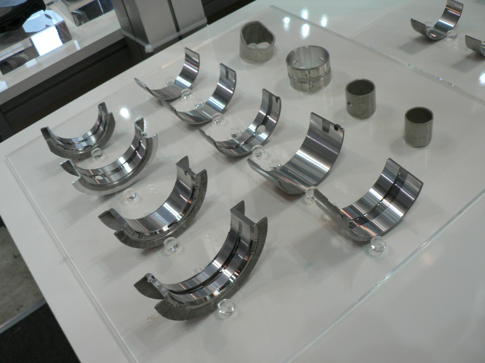 Bearings for crankshaft journal at AUTOMOTIVE ENGINEERING EXPOSITION 2007 (in Pacifico Yokohama Exhibition Hall, Yokohama, Japan).